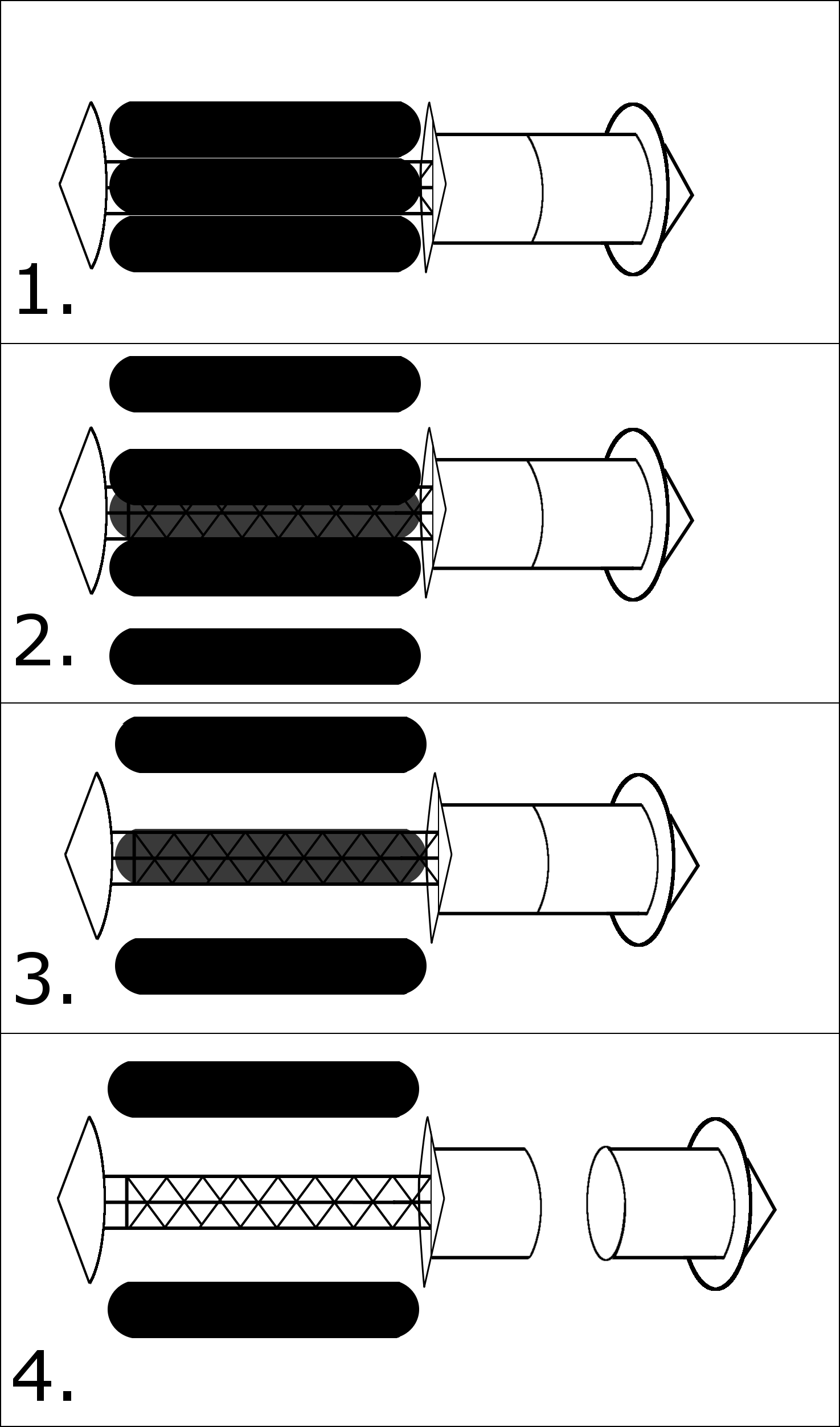 1. Initial Configuration 2. Tanks one and two are jettisoned at time T=+33.35 years 3. Tanks three and four are jettisoned at time T=+66.7 years 4. At T=+71.266 years, the spacecraft rotates. At T=+100 years (arrival at target star), tanks five and six jettisoned, engine and shields separate. Image created in Gimp and based on diagrams found here